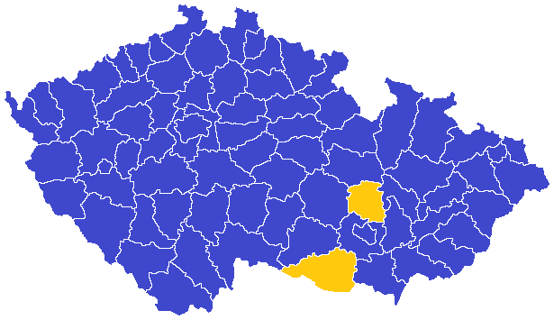 Elections to the Czech National Council in 1992 - winning party by districts (blue Coalition of ODS and KDS, gold Movement for Autonomous Democracy - Society for Moravia and Silesia)